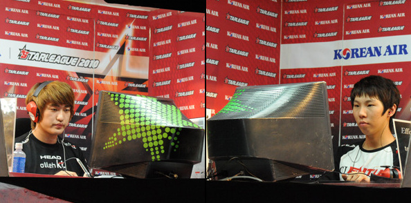 The 2010 Korean Air OnGameNet Starleague Season 1 finals featuring Flash and EffOrt in South Korea